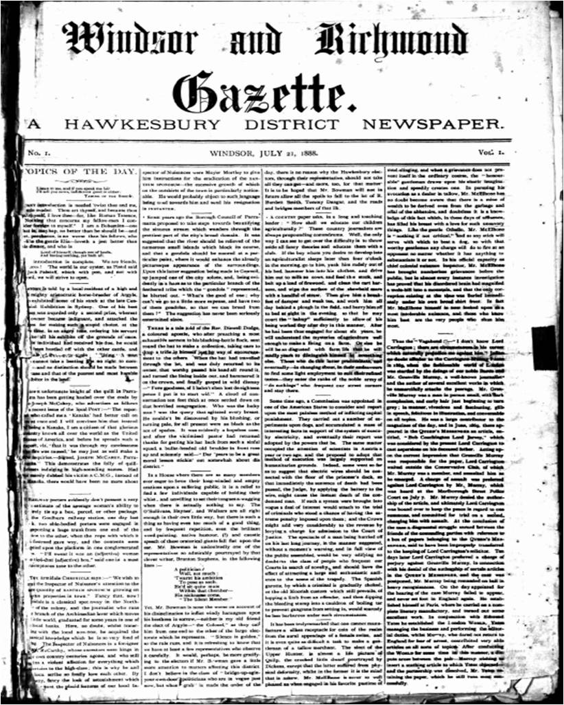 Old Australian newspaper cover page.